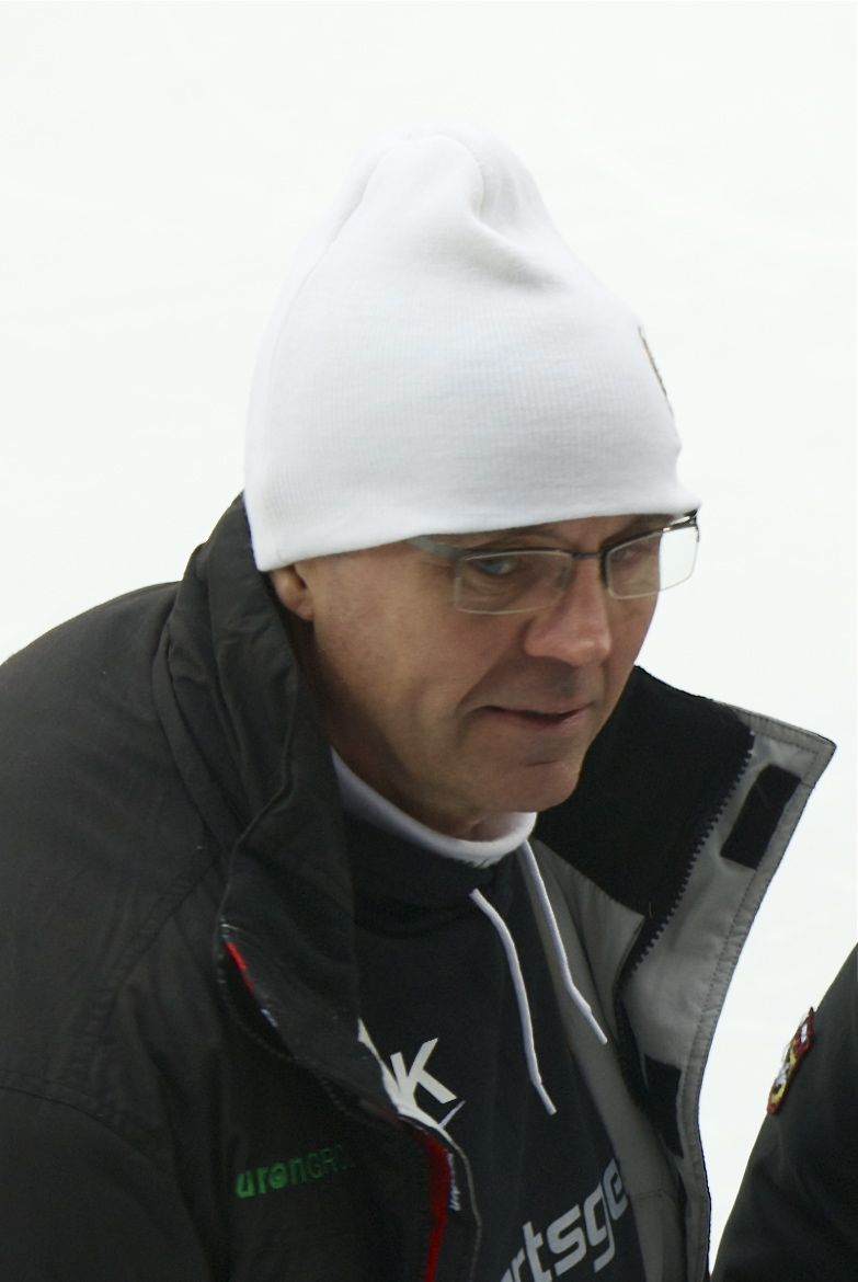 Stefan Karlsson, former bandy player and today (2012) head coach of Hammarby Bandy.